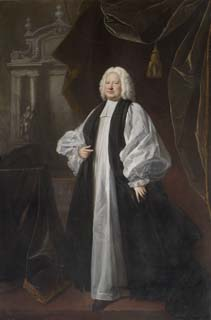 John Potter, Archbishop of Canterbury (c1674-1747)